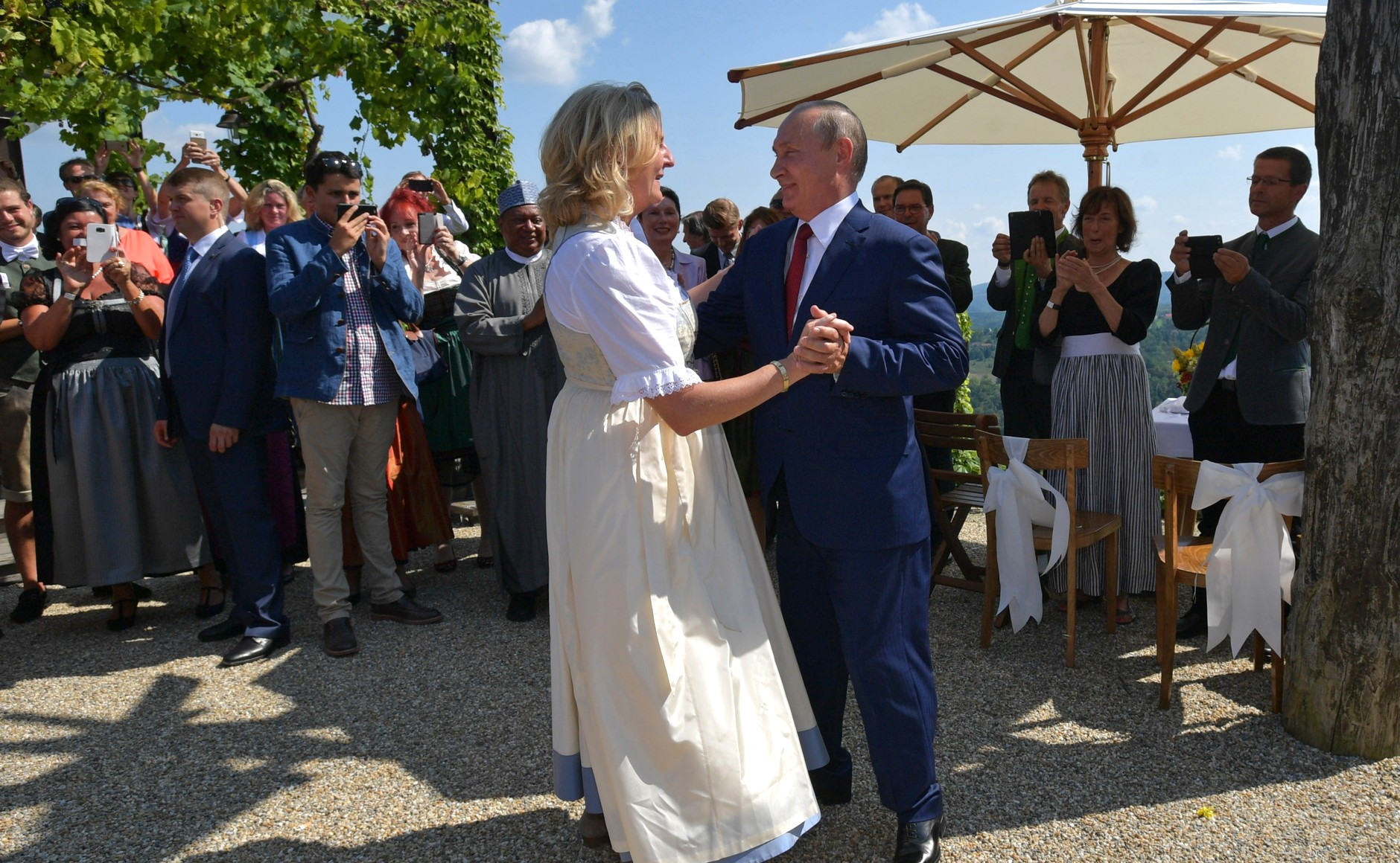 Vladimir Putin at the wedding of Karin Kneissl on 18 August 2018